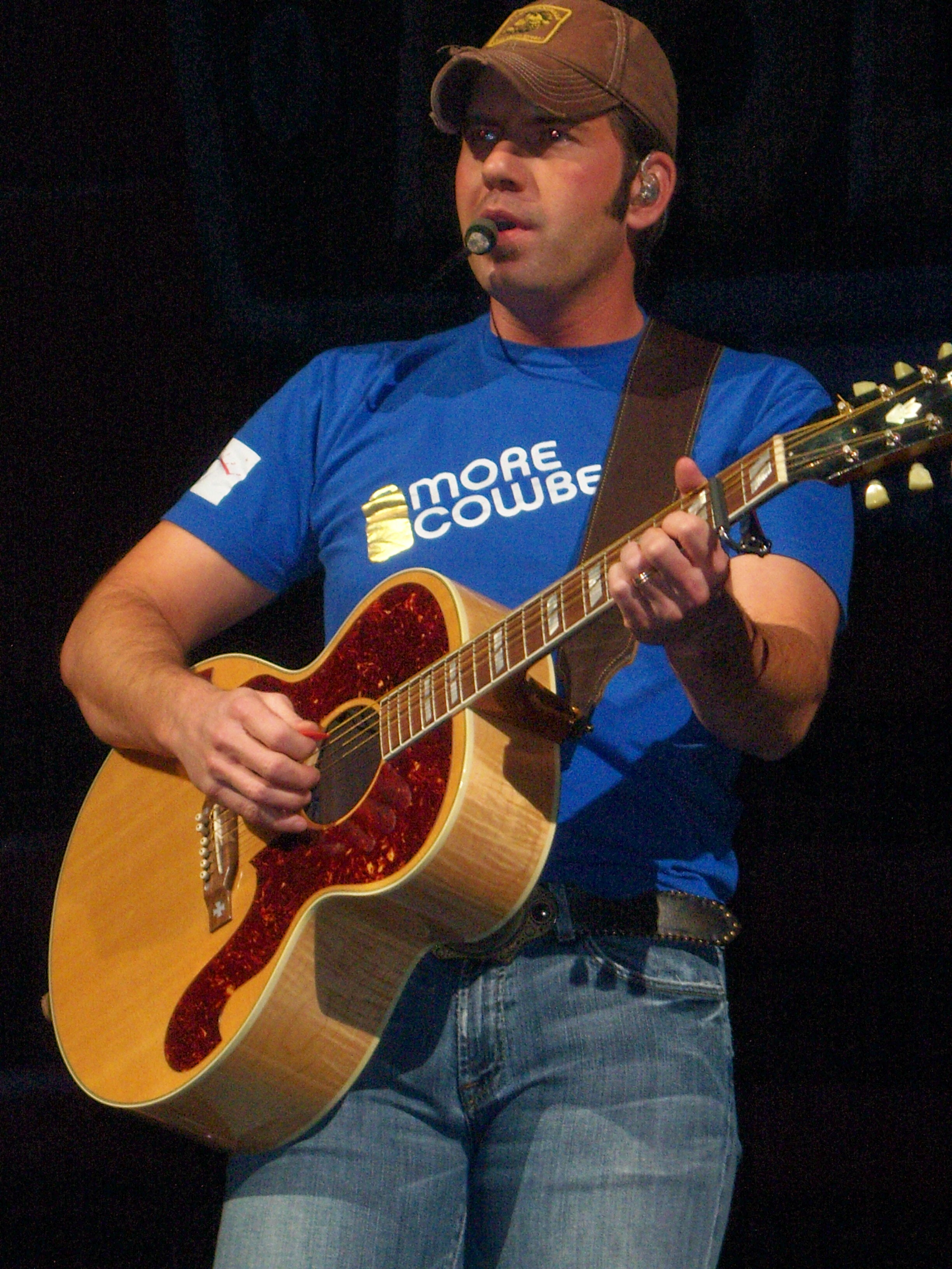 Rodney Atkins performing in Columbus, OH on December 1, 2007 during Brad Paisley's Bonfires & Amplifiers Tour.